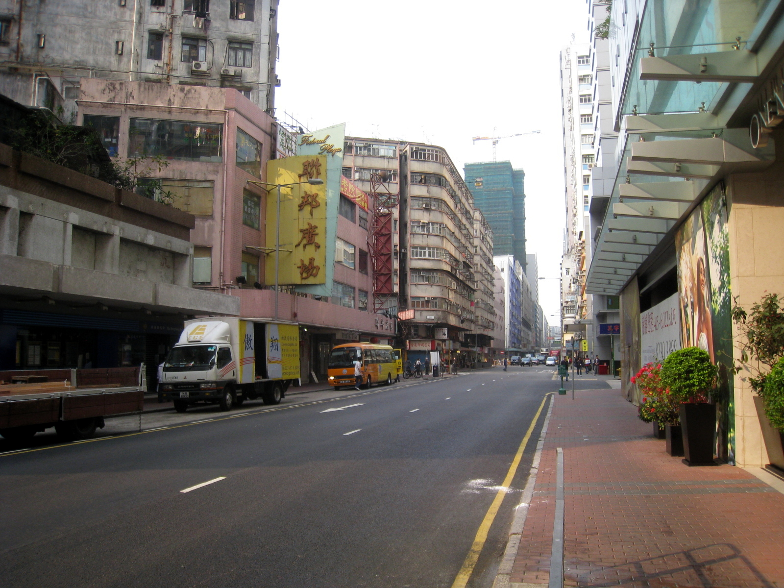 Castle Peak Road Cheung Sha Wan Section 青山道長沙灣段